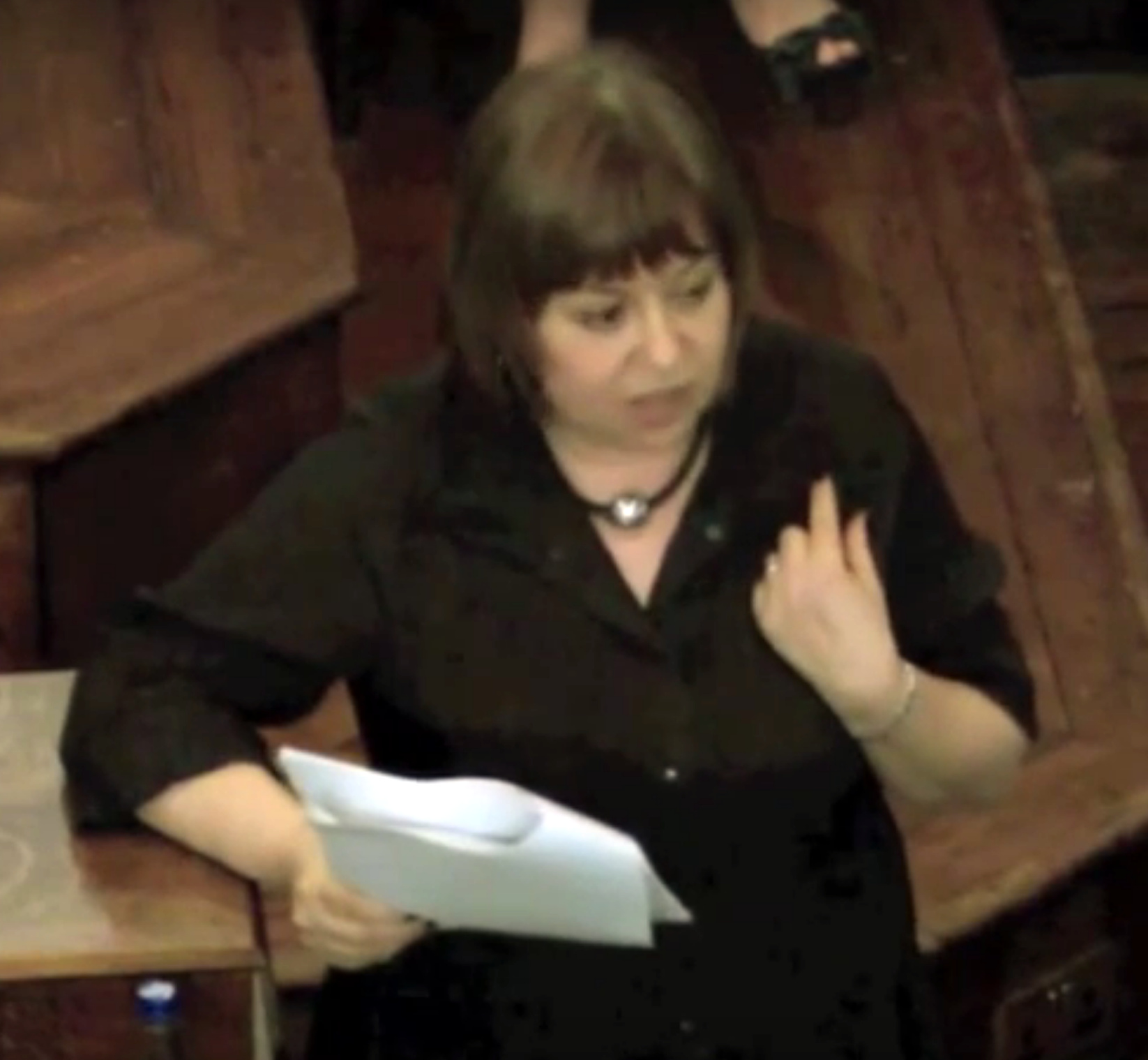 Gail Dines, professor emerita of sociology and anti-pornography campaigner, speaking to the Cambridge Union